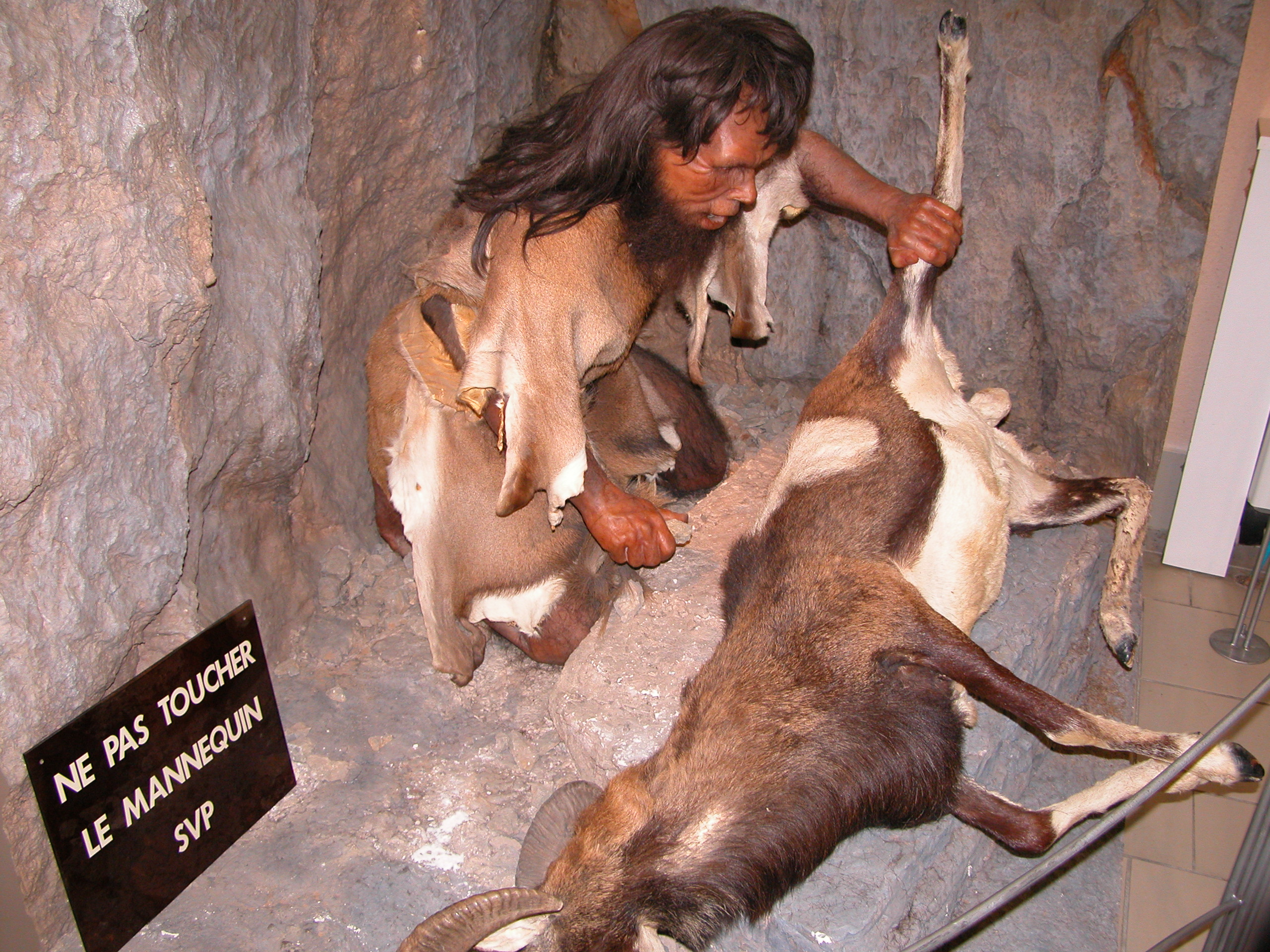 Musée de Préhistoire de Tautavel en France.